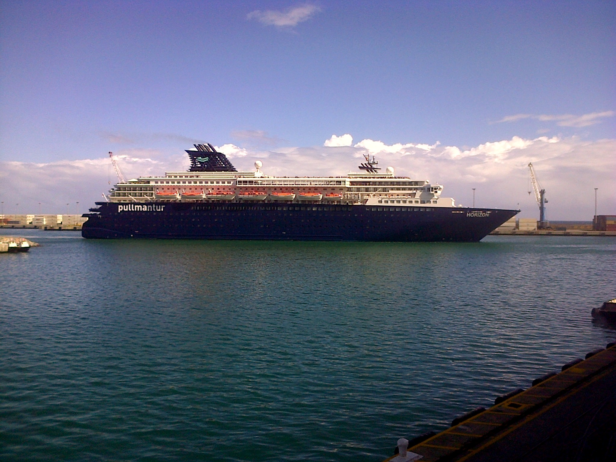 Horizon Arriving at the Port of La Guaira.